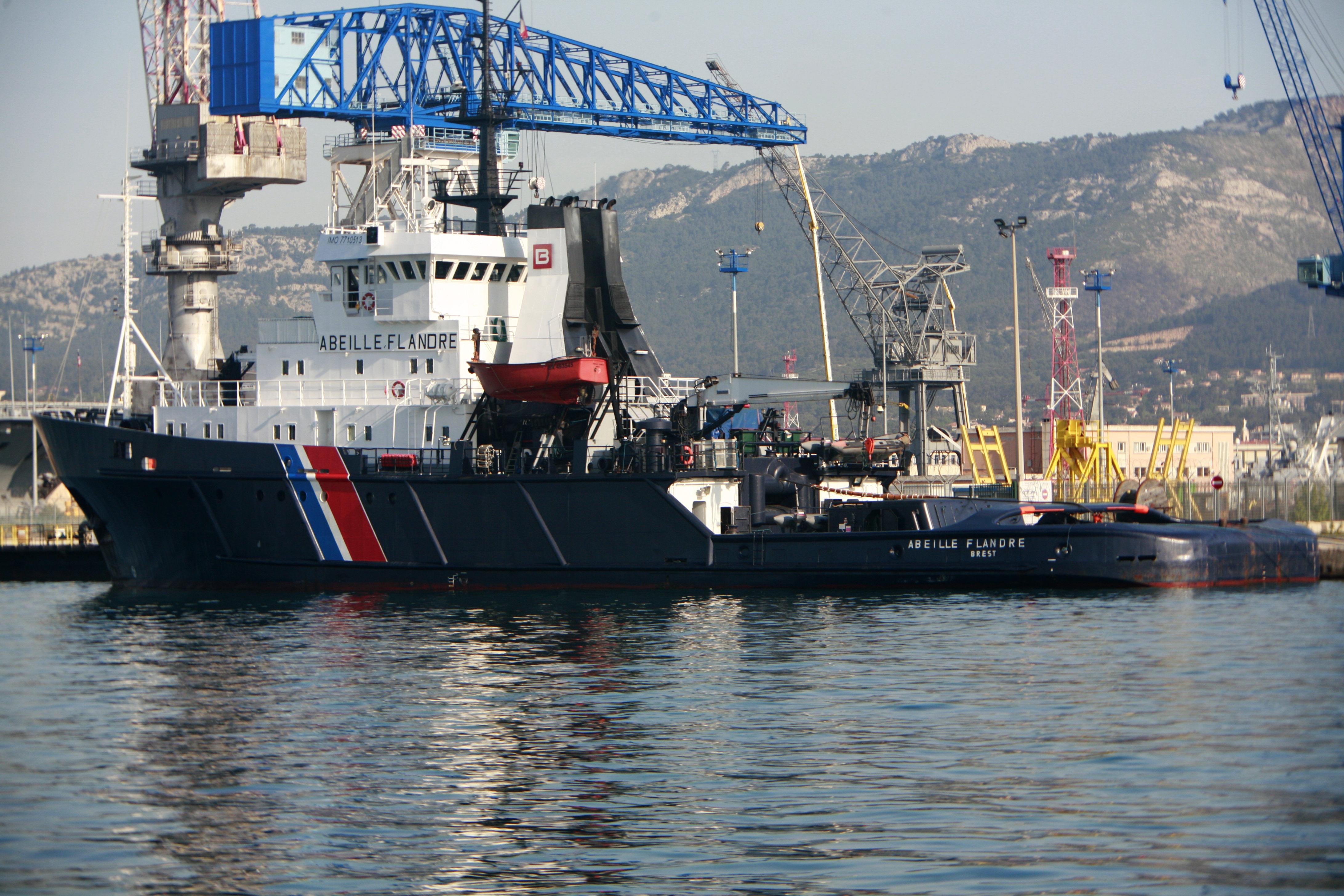 The high sea tug and rescue ship Abeille Flandre moored in Toulon harbour. Abeille Flandre is moored next to Mistral and preparing for the celebrations of the 8th of May 2009, where she will parade before President Sarkozy and represent the "saveguard at sea" task of the French Navy